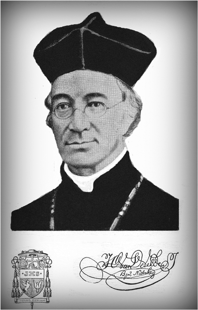 Lithograph image of James Oliver Van de Velde